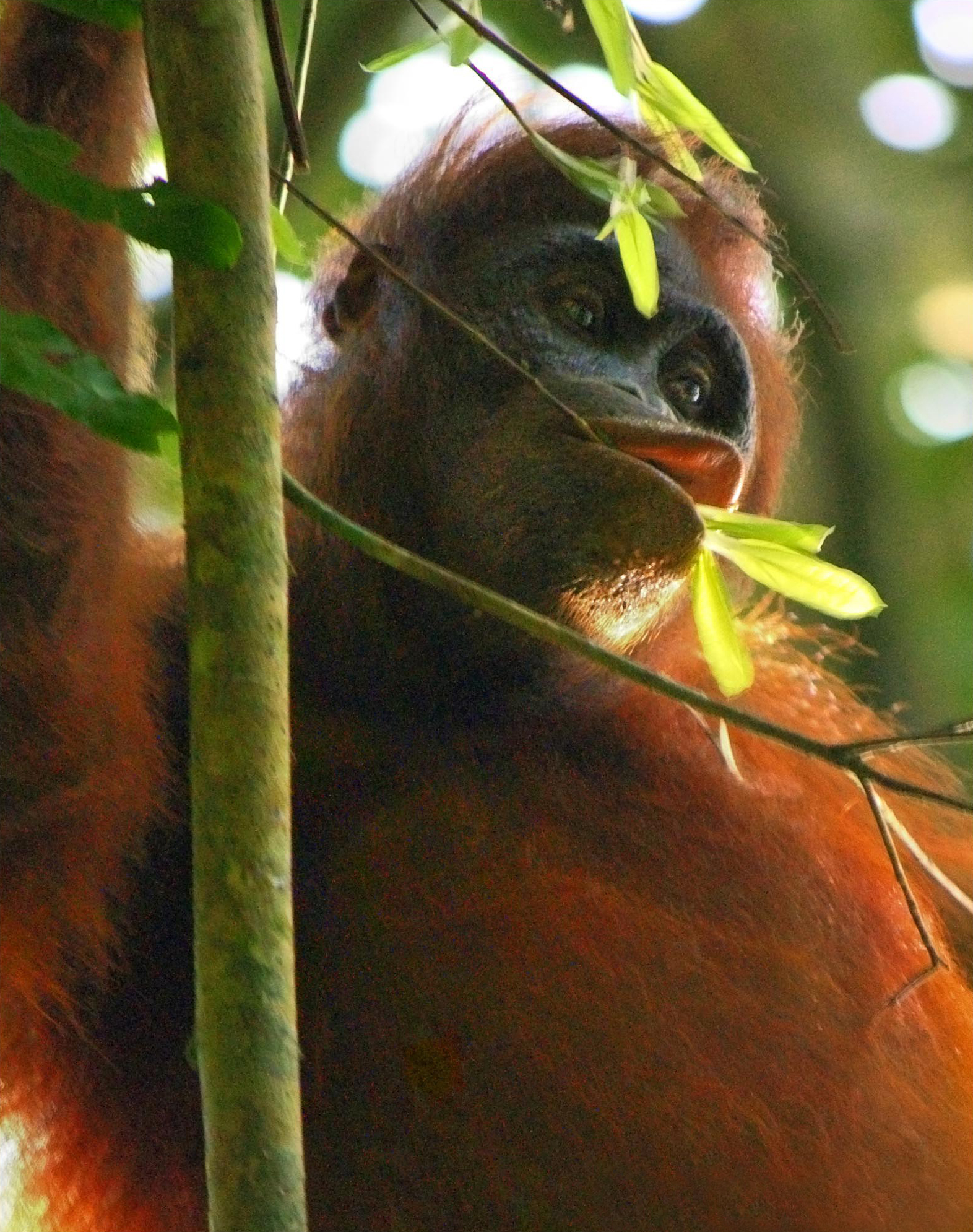 This wild Orangutan was spotted after 3 days trekking in Kutai National Park. I was based at Camp Kapak and the rangers was all to pleased to see a westerner visit the park and help me find these elusive creatures. They were doing behavioural research at the time using video cameras. After long sweaty days and plenty of mosquito bites we found this Orangutan high in the canopy. Conditions were near impossible for photography. The animals were too far away. The canopy layers were impenetrable, the light levels were low, but the gaps that had light had direct sunlight. So everything was under lit AND backlit. Flare problems. But at the end of this encounter the Orangutan came down to the first layer of canopy and we got a good close look. Unfortunately, just after this was taken we got drenched with urine. Maybe it was trying to tell us something! Seeing these creatures was amazing. To see such a large animal swinging through the trees, using its body mass to bend the tree and get propulsion to the next. They even cross small rivers from the canopy!